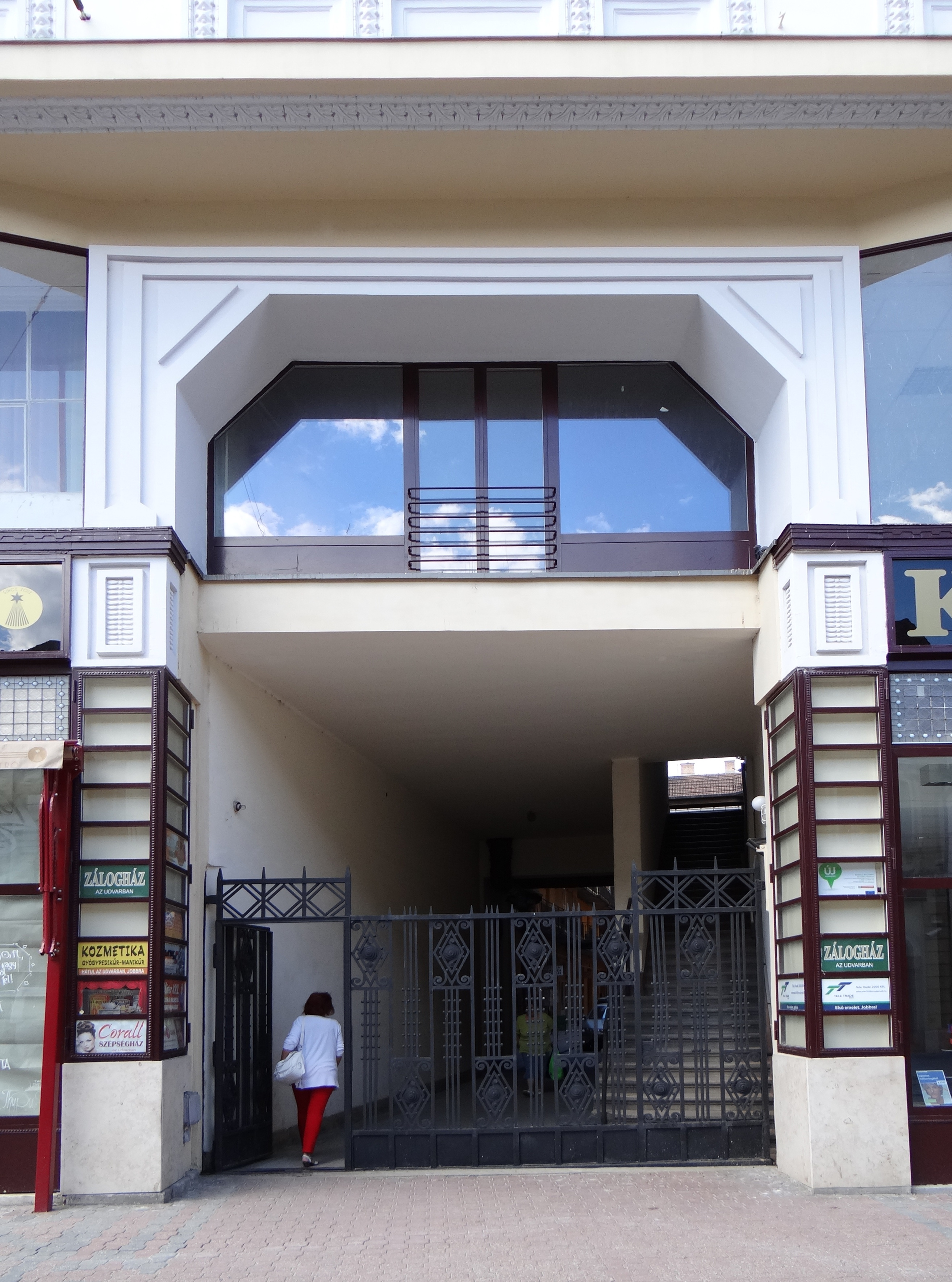 Wrought iron gate, Weidlich House, 19 Széchenyi Street, Miskolc, Hungary